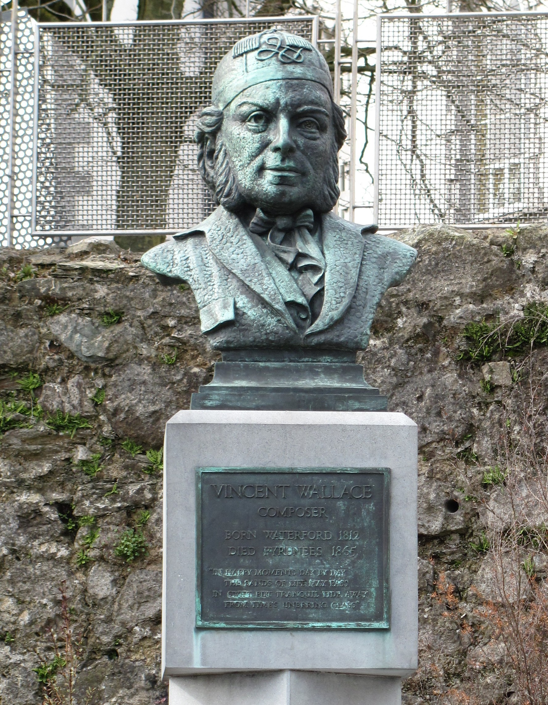 The bust of Irish composer William Vincent Wallace (Vincent Wallace, 11 March 1812 - 12 October 1865) outside the Theatre Royal in Waterford, Ireland. The plaque reads: Vincent Wallace composer. Born Waterford 1812, died Pyrennes 1865. "In happy moments day by day, The sands of life may pass. In swift but tranquil tide away, From times inferring glass."